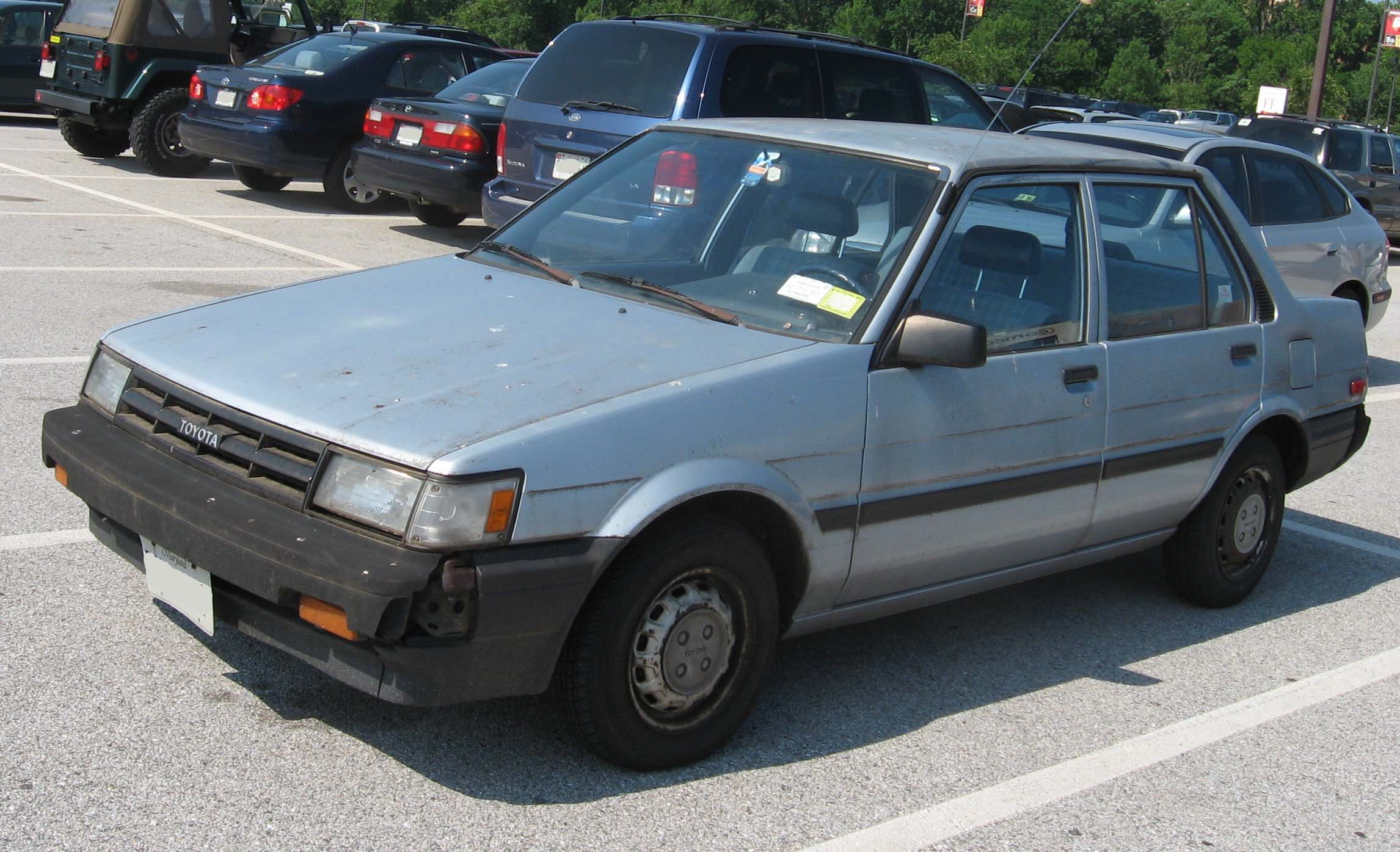 1986-1987 Toyota Corolla photographed in USA.